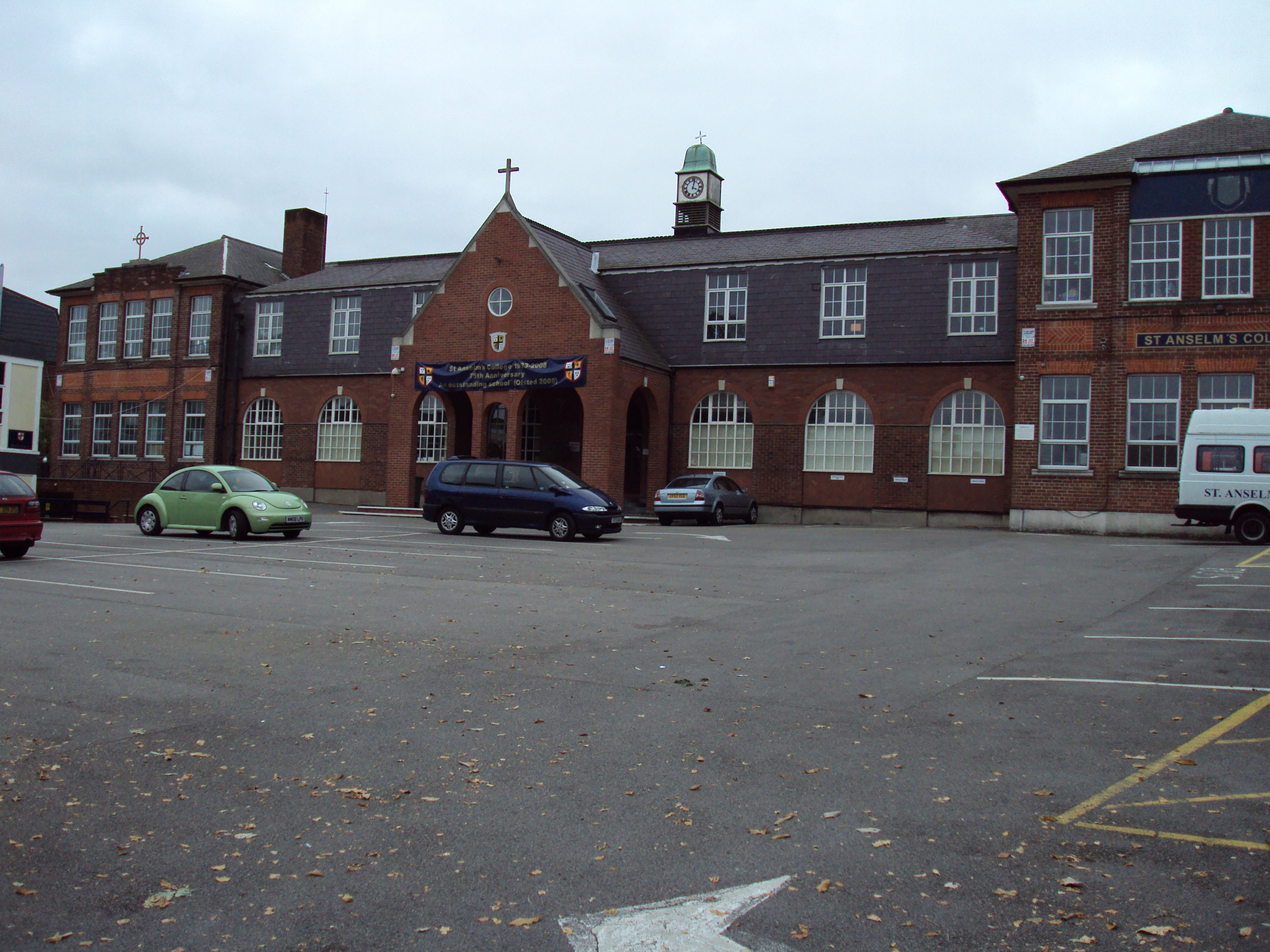 St Anselm's College, a Roman Catholic voluntary aided grammar school in Birkenhead, Merseyside, England.